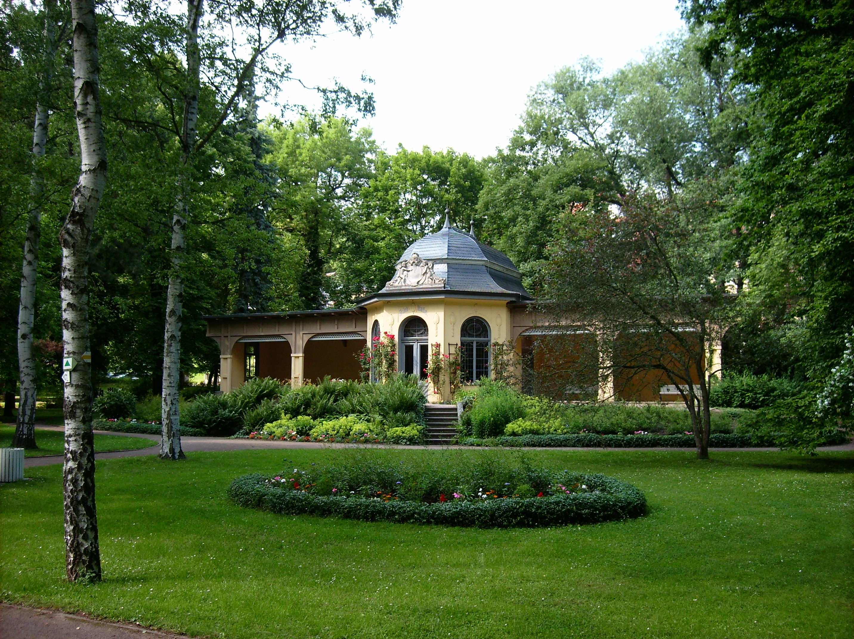 Pump-room in the gardens of the health resort of Bad Sulza (district of Weimarer Land, Thuringia)